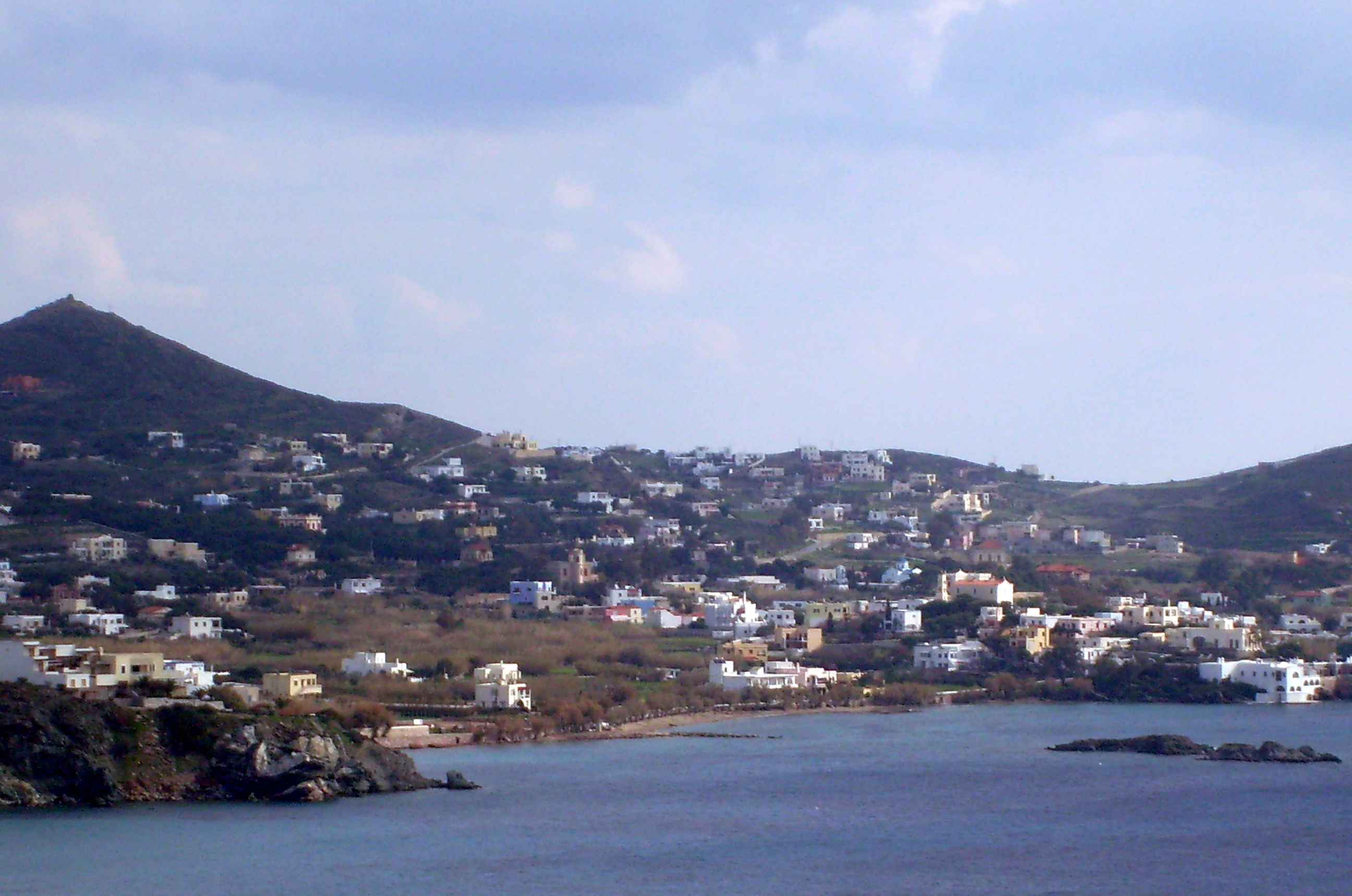 Poseidonia